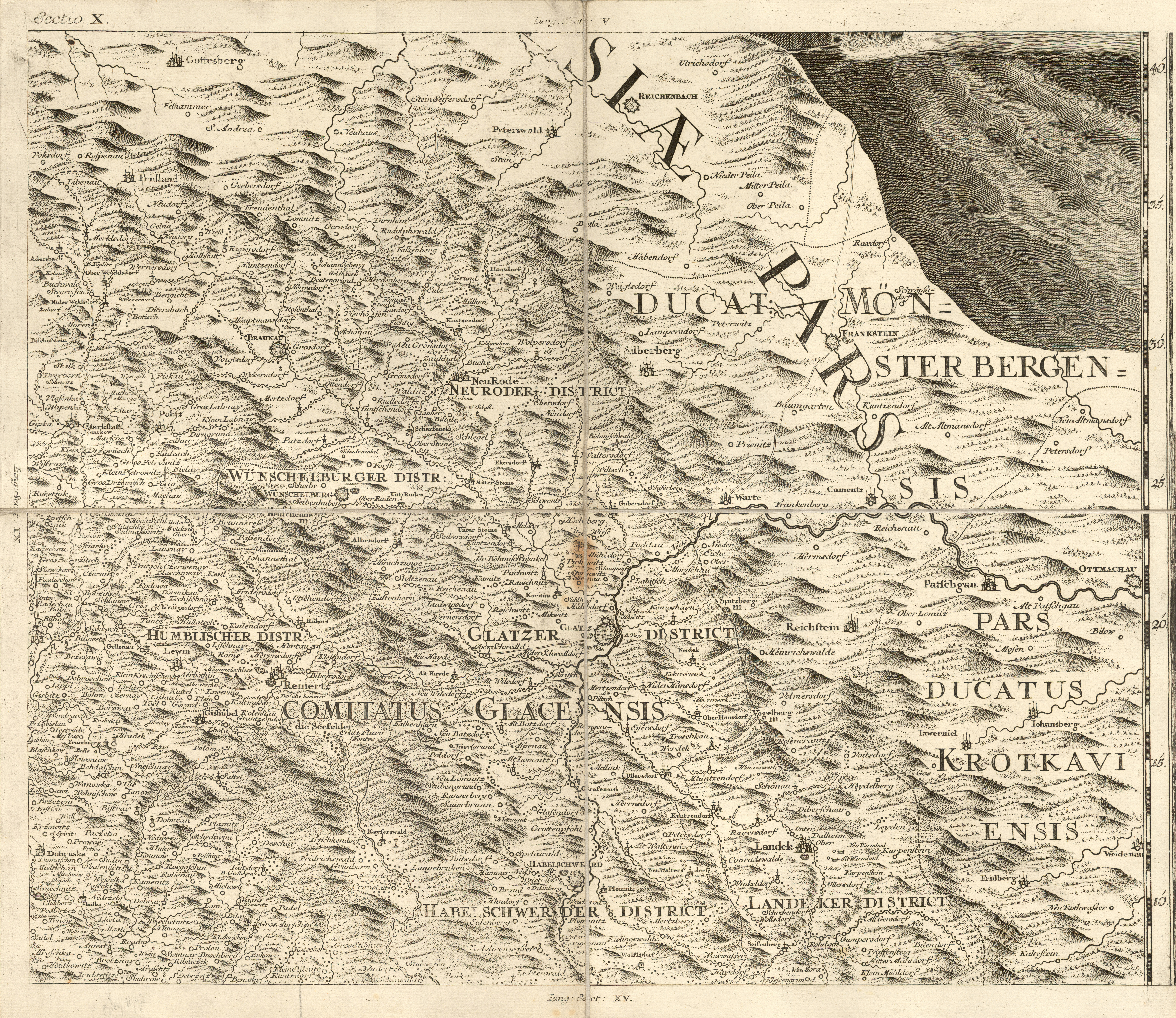 Müller's map of Bohemia.